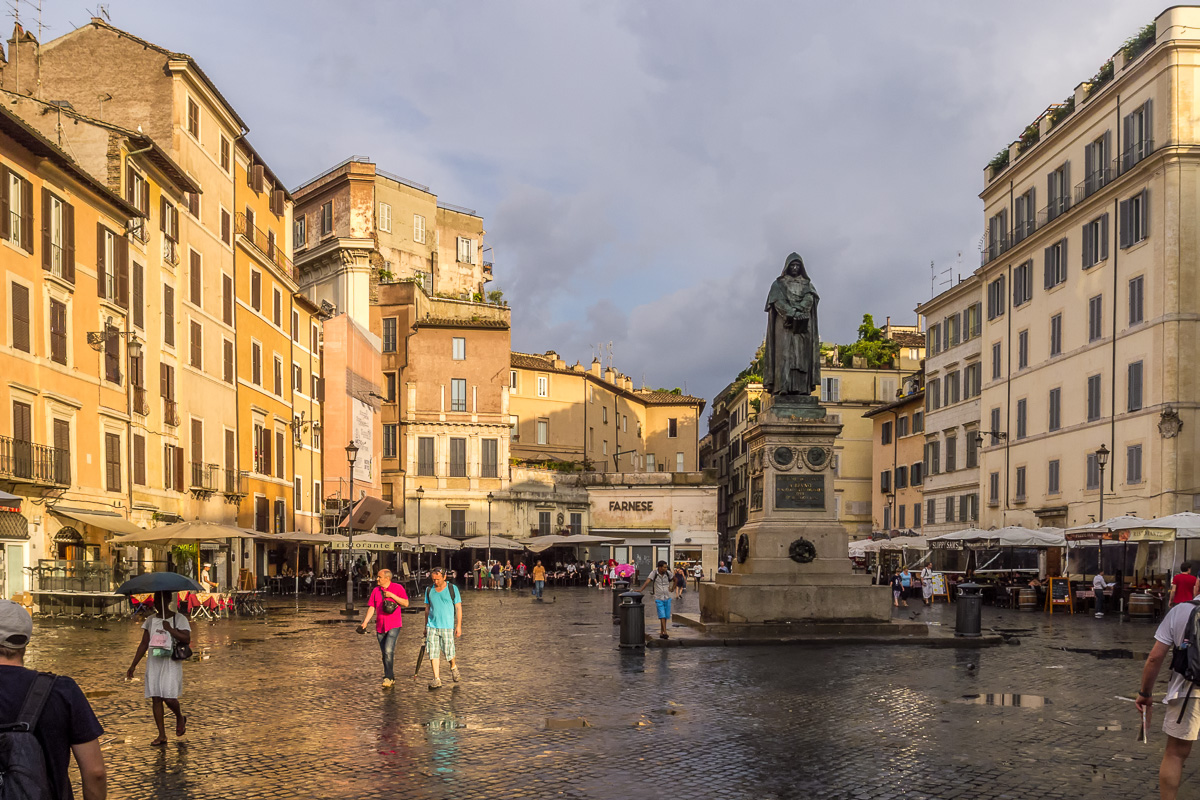 Campo de' Fiori in Rome